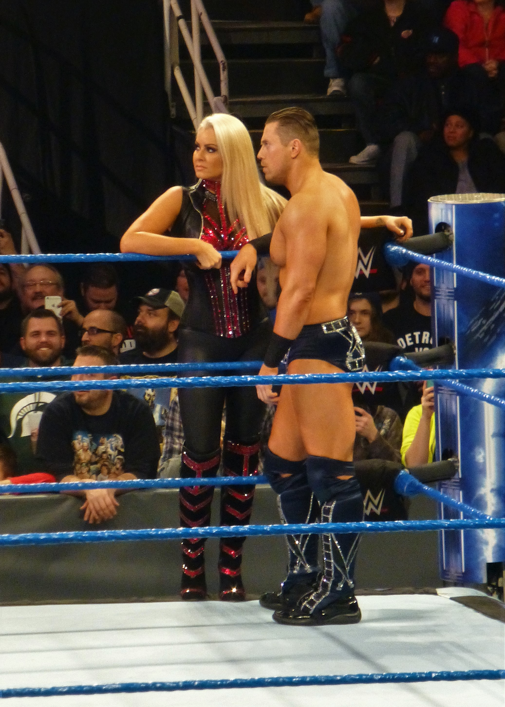 Maryse Ouellet and The Miz